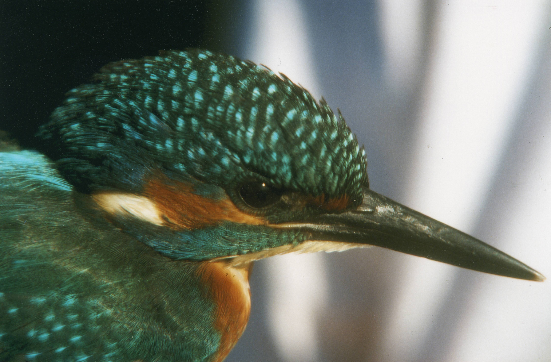 description: Portrait of a Kingfisher source: own photo photographer/illustrator: S. Seyfert (Stse 10:41, 7 March 2006 (UTC)) date: 2000-10 note